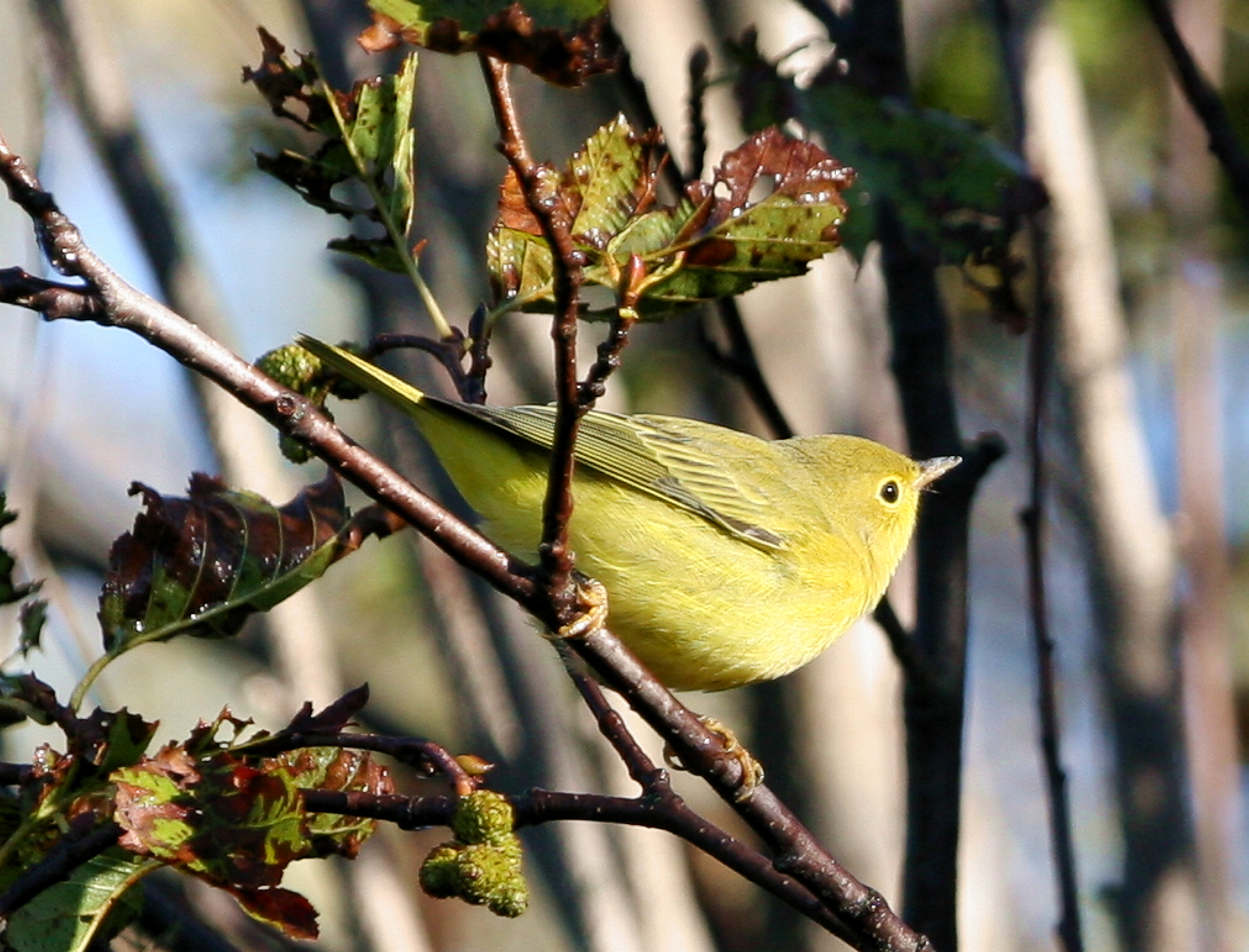 Yellow Warbler Dendroica aestiva (syn. D. petechia aestiva). Photo was taken at BLM Campbell Tract, Anchorage, Alaska